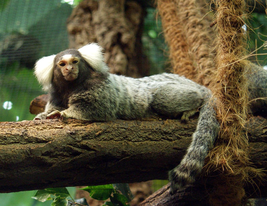 Common Marmoset (Callithrix jacchus) at Aquazoo-Löbbecke-Museum Düsseldorf